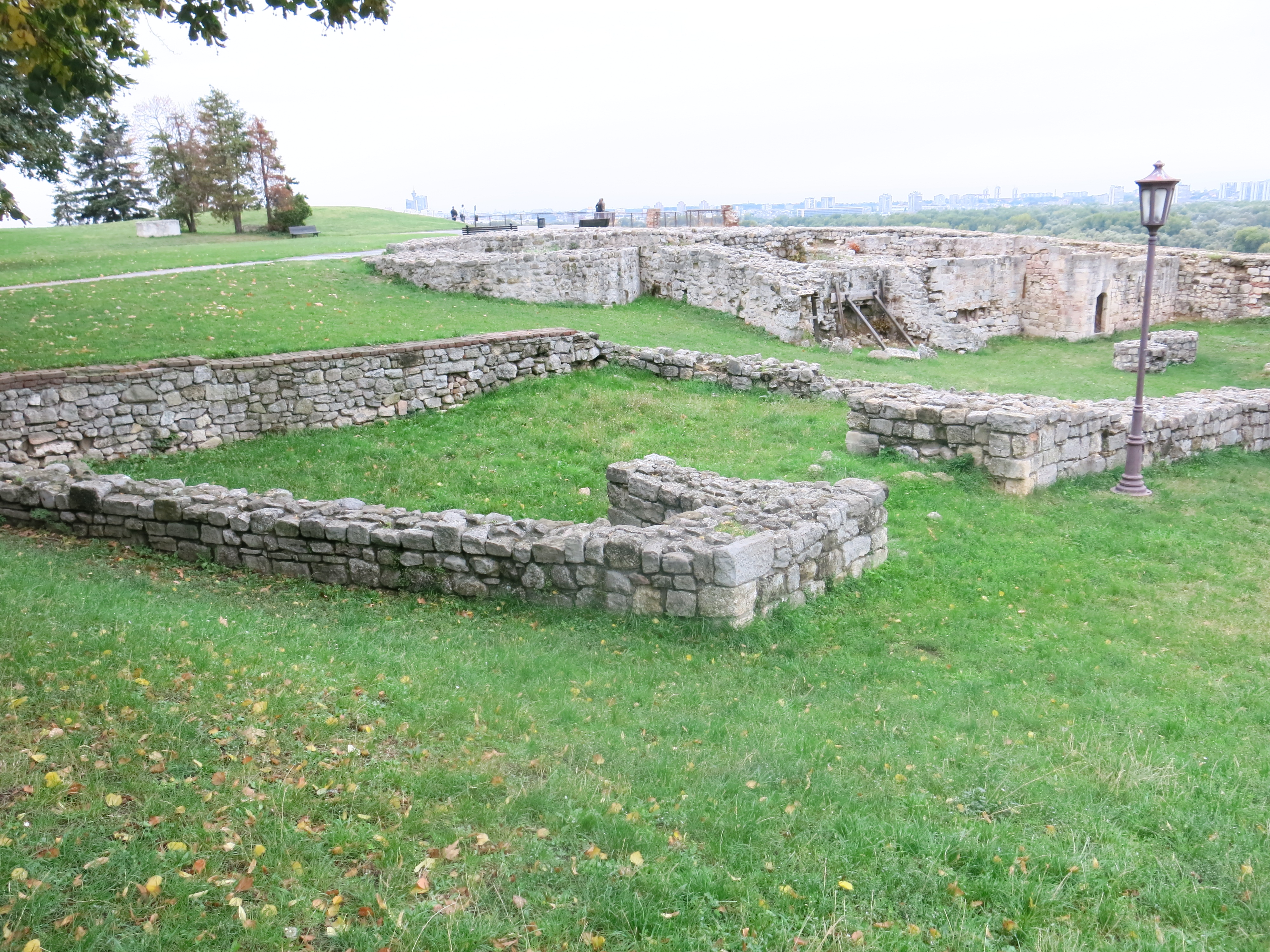 Belgrade Fortress consists of the old citadel (Upper and Lower Town) and Kalemegdan Park (Large and Little Kalemegdan) on the confluence of the River Sava and Danube, in an urban area of modern Belgrade, the capital of Serbia. It is located in Belgrade's municipality of Stari Grad. Belgrade Fortress was declared a Monument of Culture of Exceptional Importance in 1979, and is protected by the Republic of Serbia. It is the most visited tourist attraction in Belgrade, with Skadarlija being the second. Since the admission is free, it is estimated that the total number of visitors (foreign, domestic, citizens of Belgrade) is over 2 million yearly.